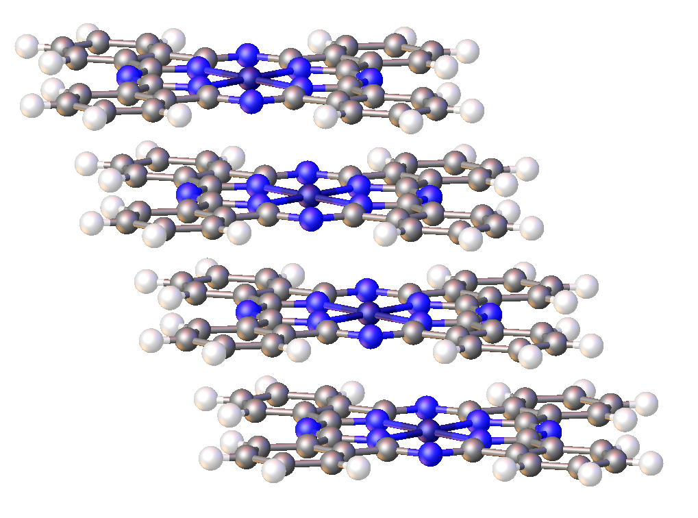 portion of unit cell for CuPc